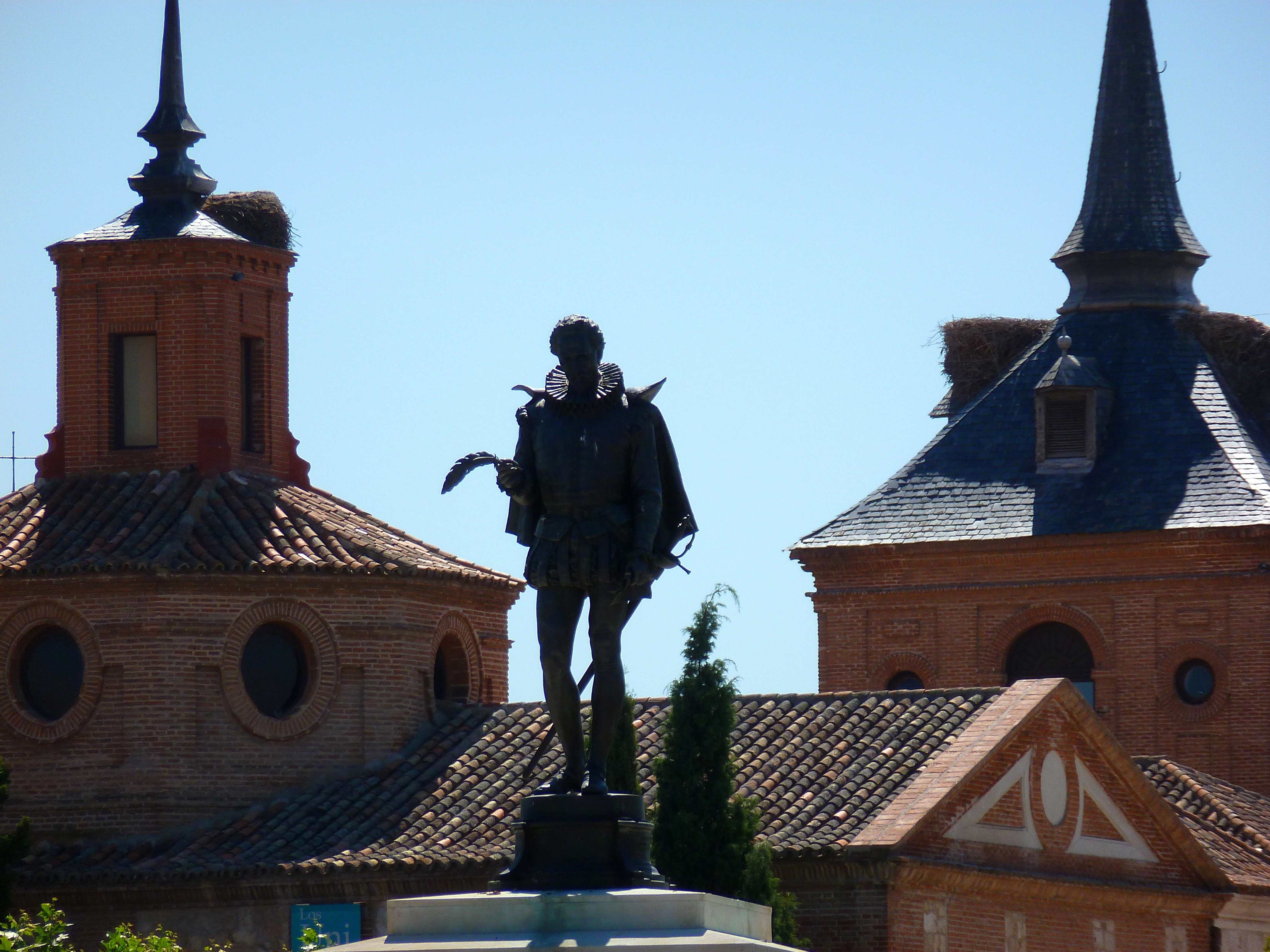 Statue of Cervantes in Alcalá de Henares, Spain.